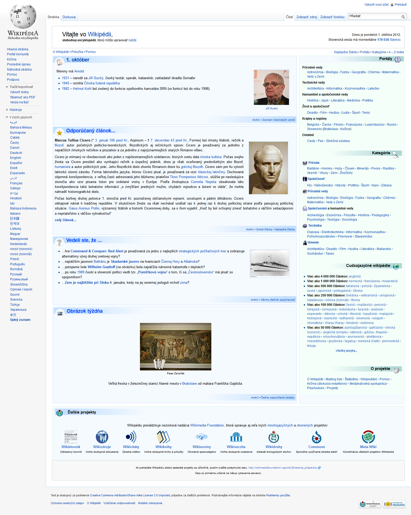 Screenshot of the Slovak Wikipedia's main page, taken on October 1st, 2012 with the FireShot add-on for Firefox